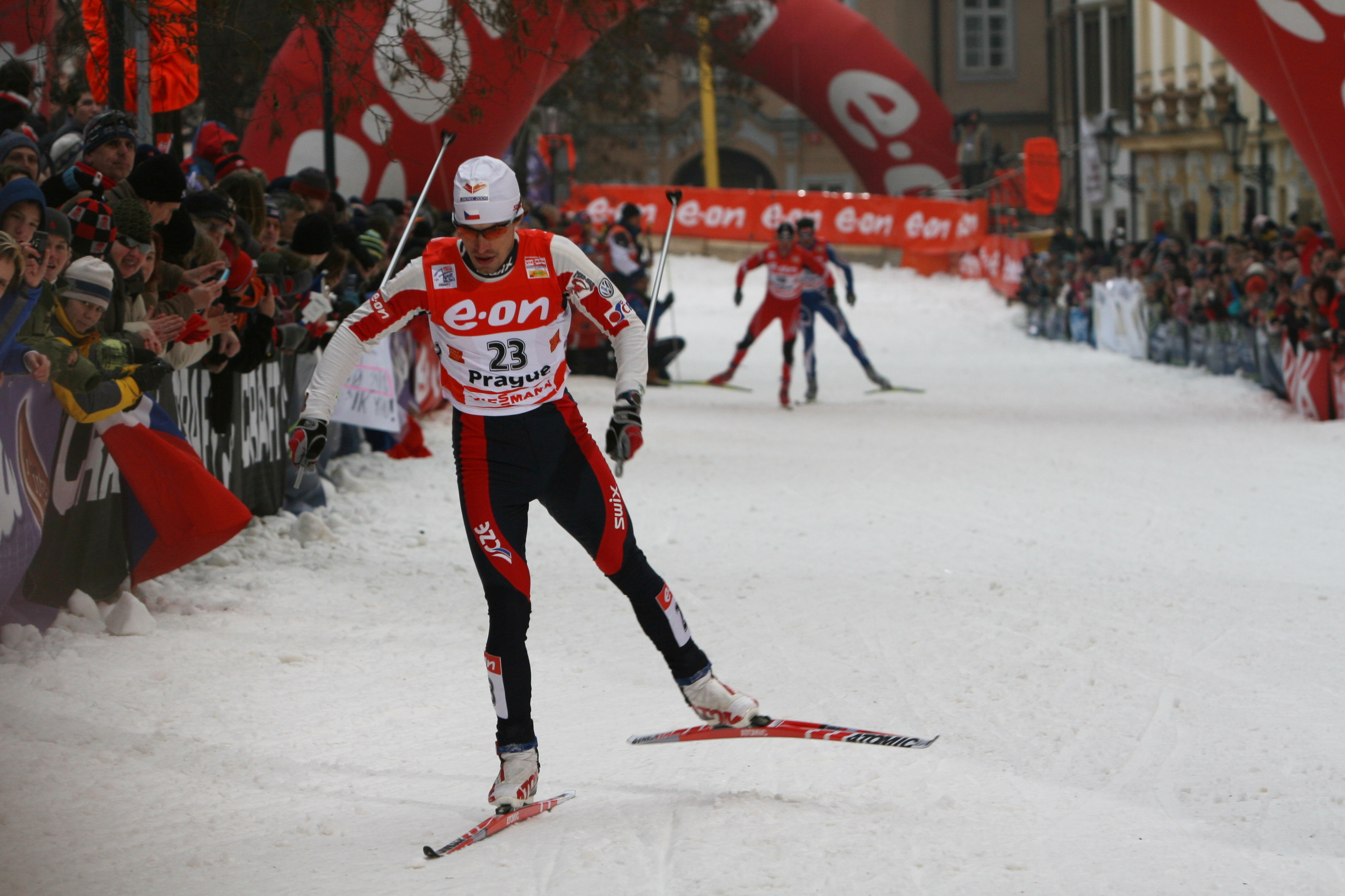 Martin Koukal in the quarterfinals of Tour de Ski in Prague